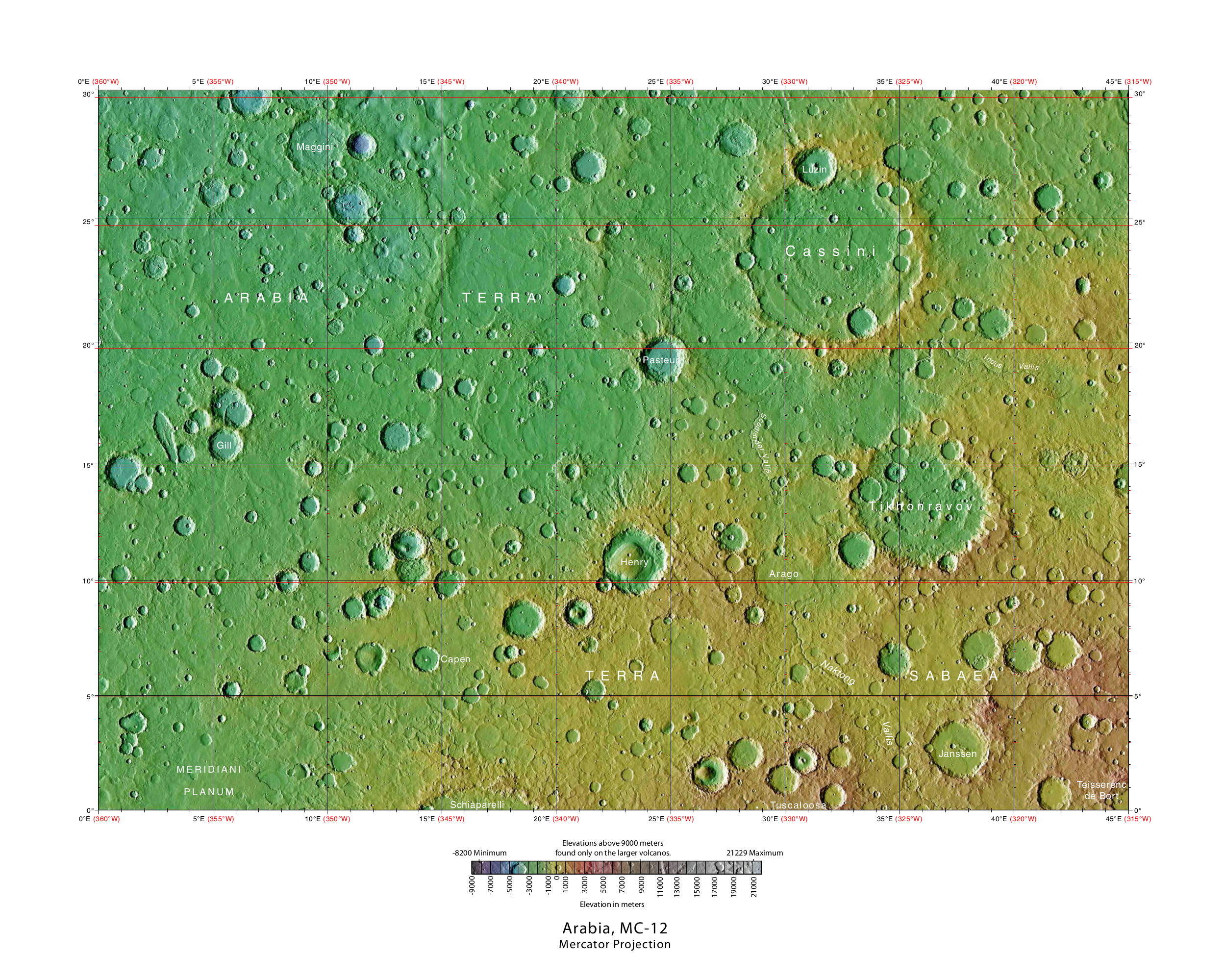 MOLA Topographic Map of Arabia Quadrangle (MC-12) on the planet Mars. NOTE: Converted the original PDF file to a PNG File (via GIMP v2.8.4 program) - and uploaded to Wikimedia Commons.